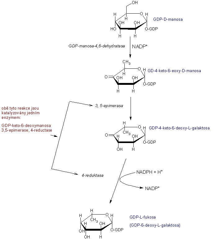 de novo synthesis of fucose